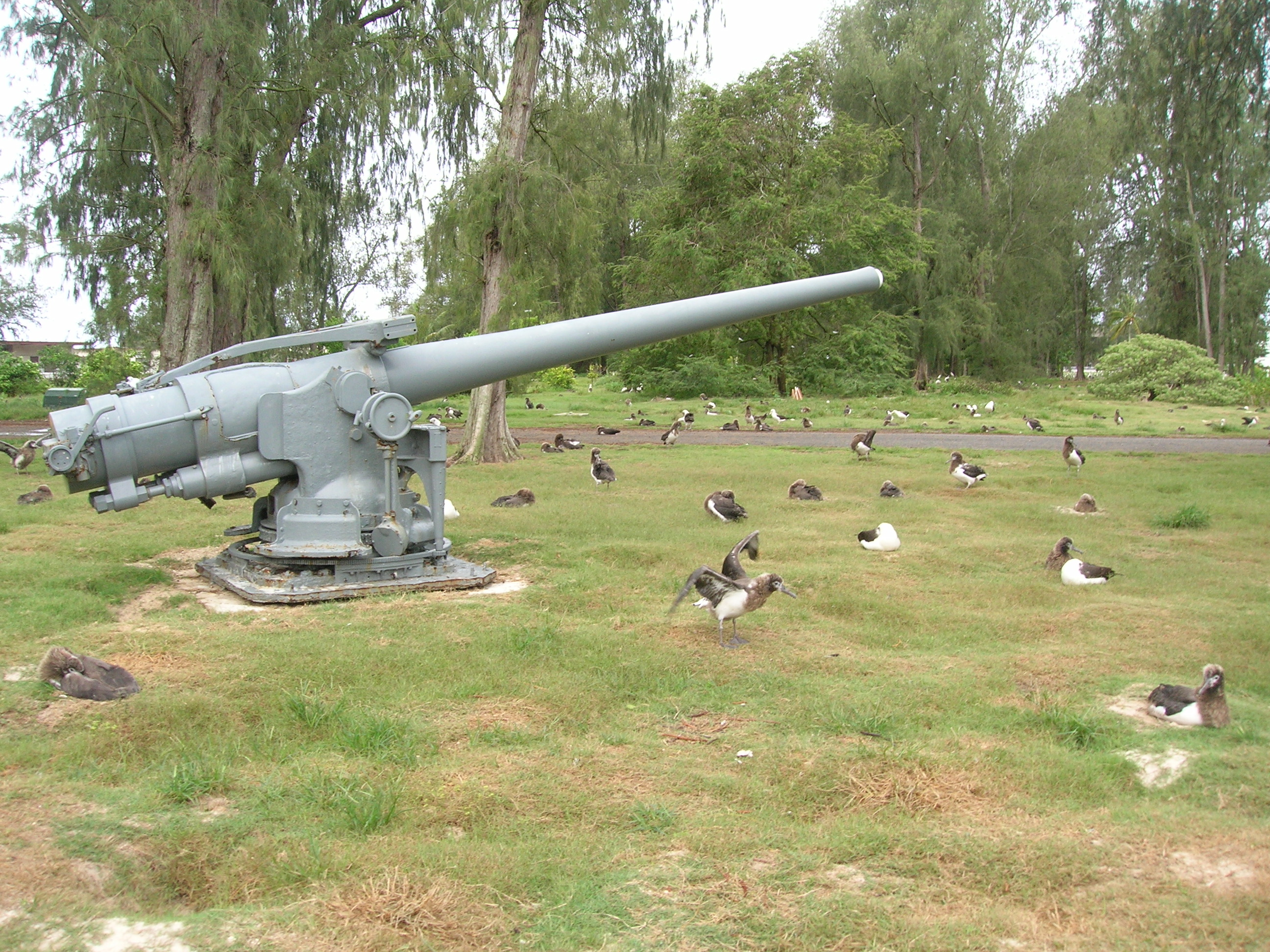 Cynodon dactylon (habit with gun and Laysan albatross). Location: Midway Atoll, Midway Memorial Sand Island